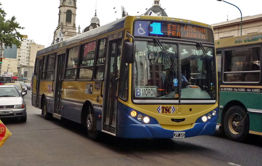 Metalpar Iguazú II bus (reg. JPP 645, #25, built 2011) with Mercedes-Benz OH 1618 L-SB chassis in Buenos Aires Province, Argentina. Colectivo, line 1, Transportes San Cayetano S.A.C. operator.